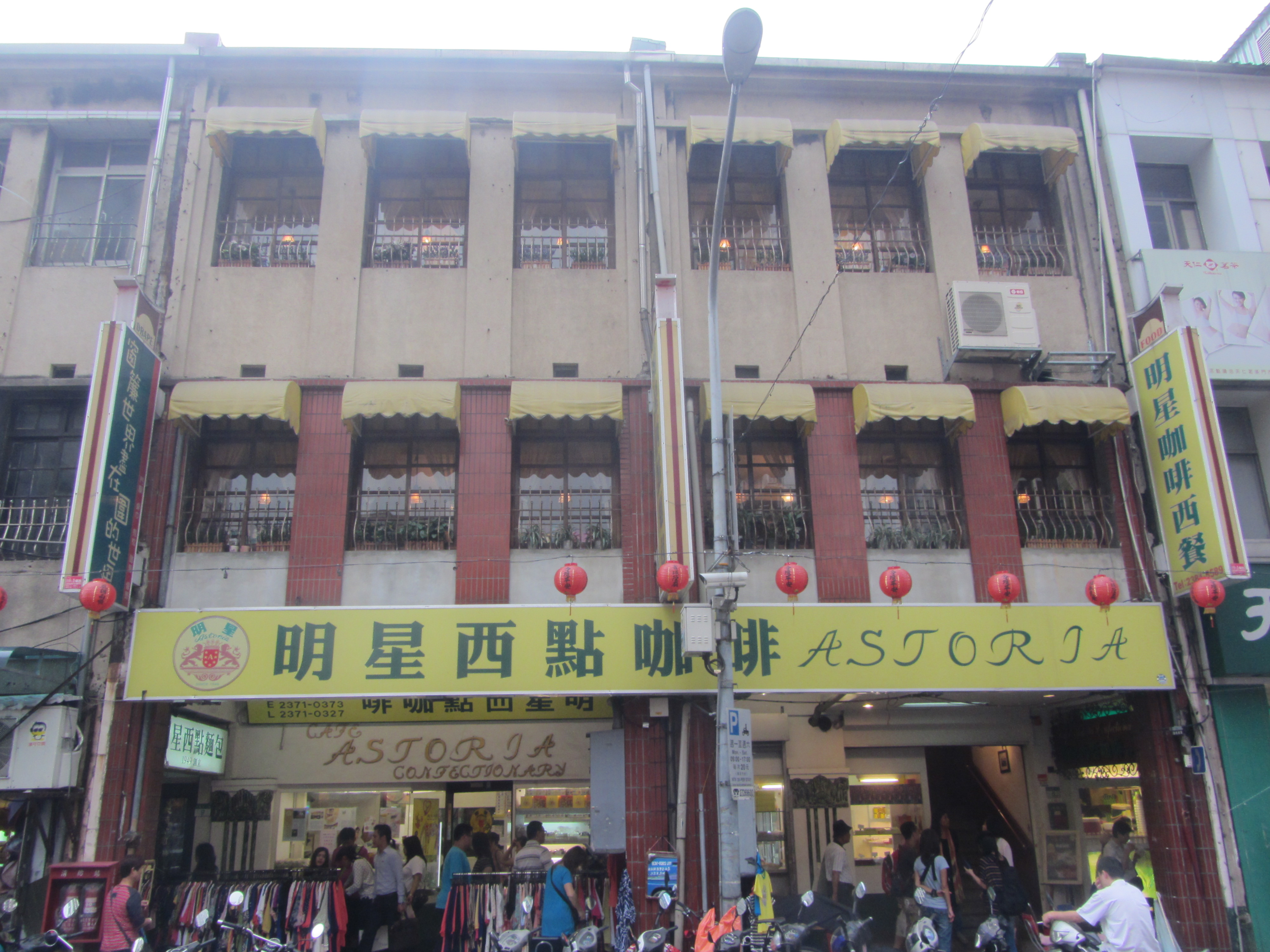 Cafe Astoria, Taipei.